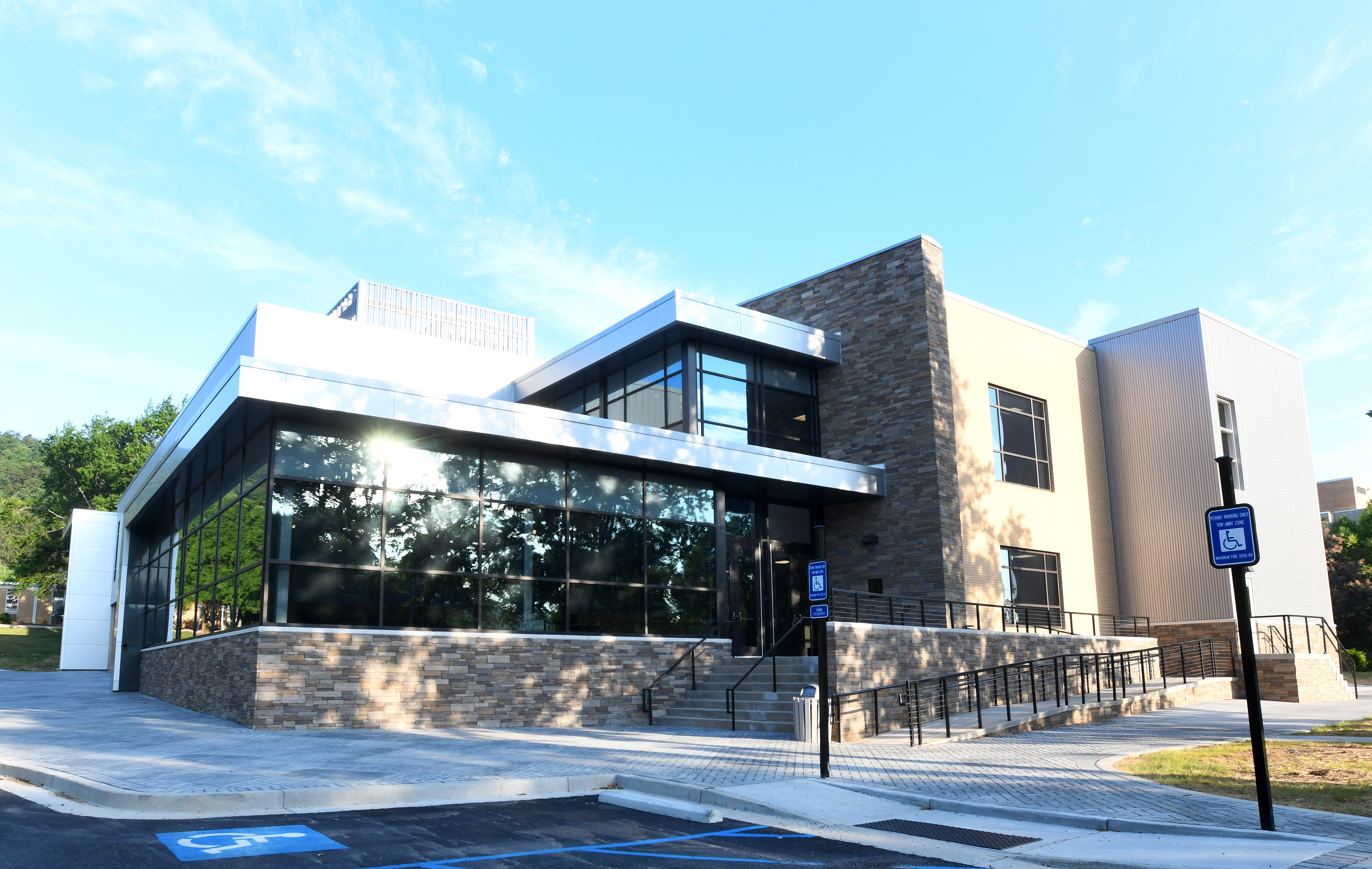 The Gignilliat Memorial Hall of the Dalton State Wright School of Business.